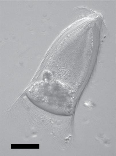 Trichonympha campanula from the termite Zootermopsis angusticollis.